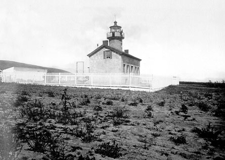 Public Domain statement here; Santa Barbara Lighthouse was a lighthouse in California, United States, on the Santa Barbara Harbour, California